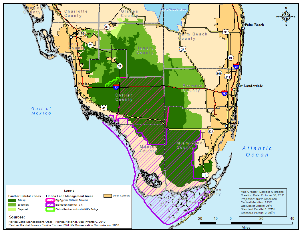 Florida Panther Habitat area.